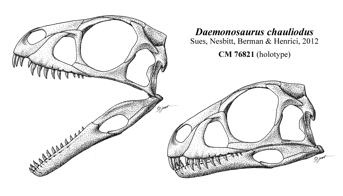 Skeletal reconstruction of the skull of Daemonosaurus chauliodus.